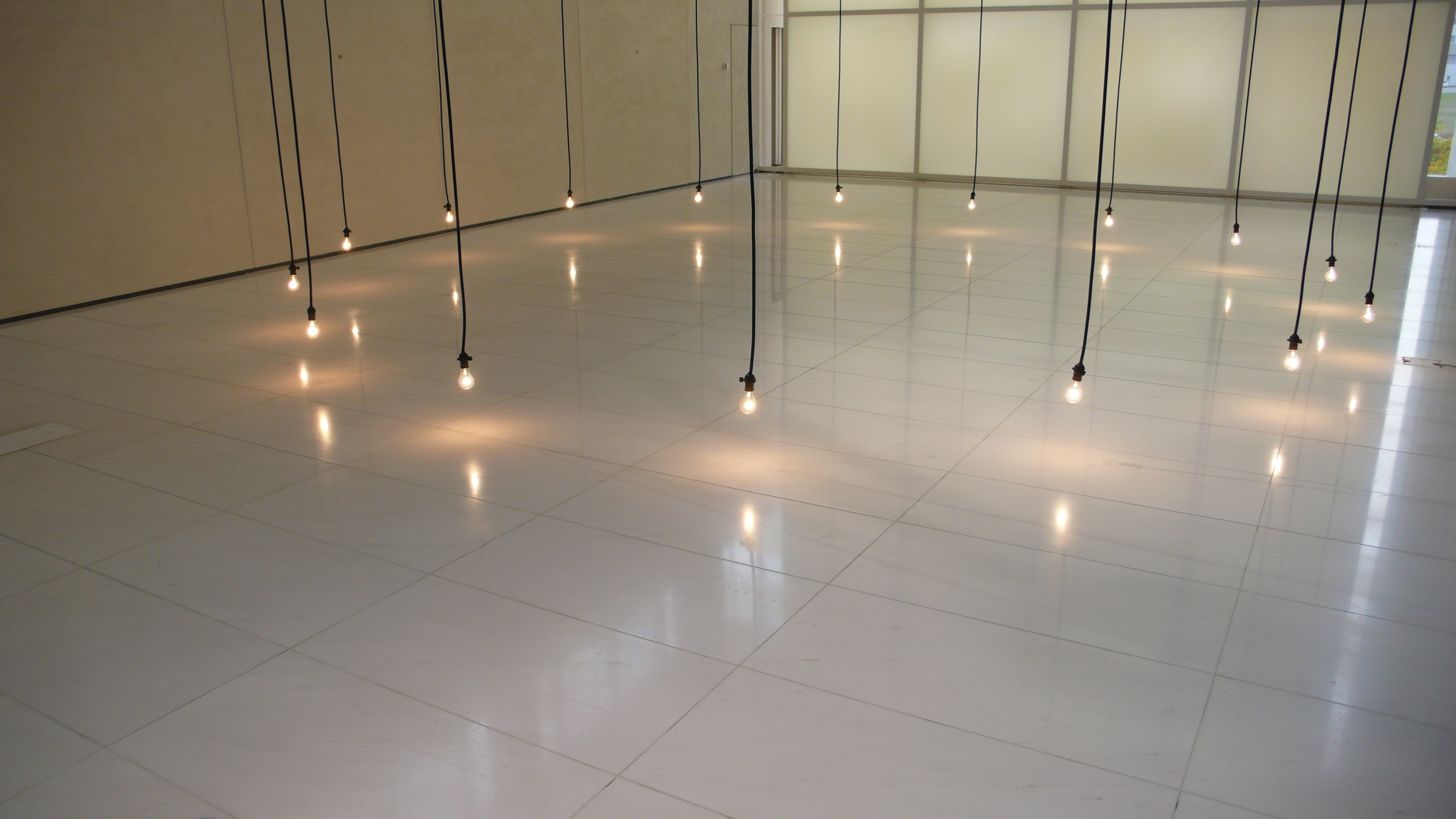 Iwate Museum of Art in Morioka-shi, Iwate pref., Japan.